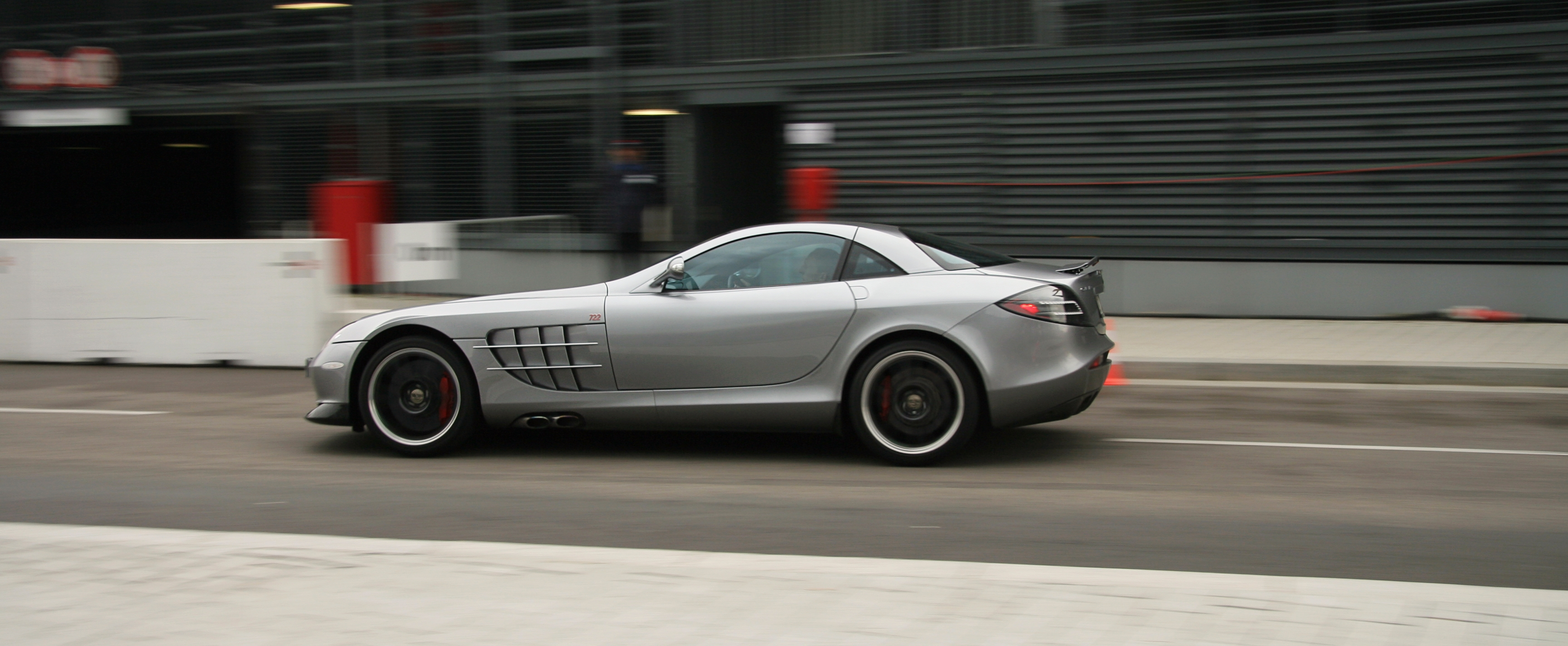 Mercedes SLR 722-Edition (C199)